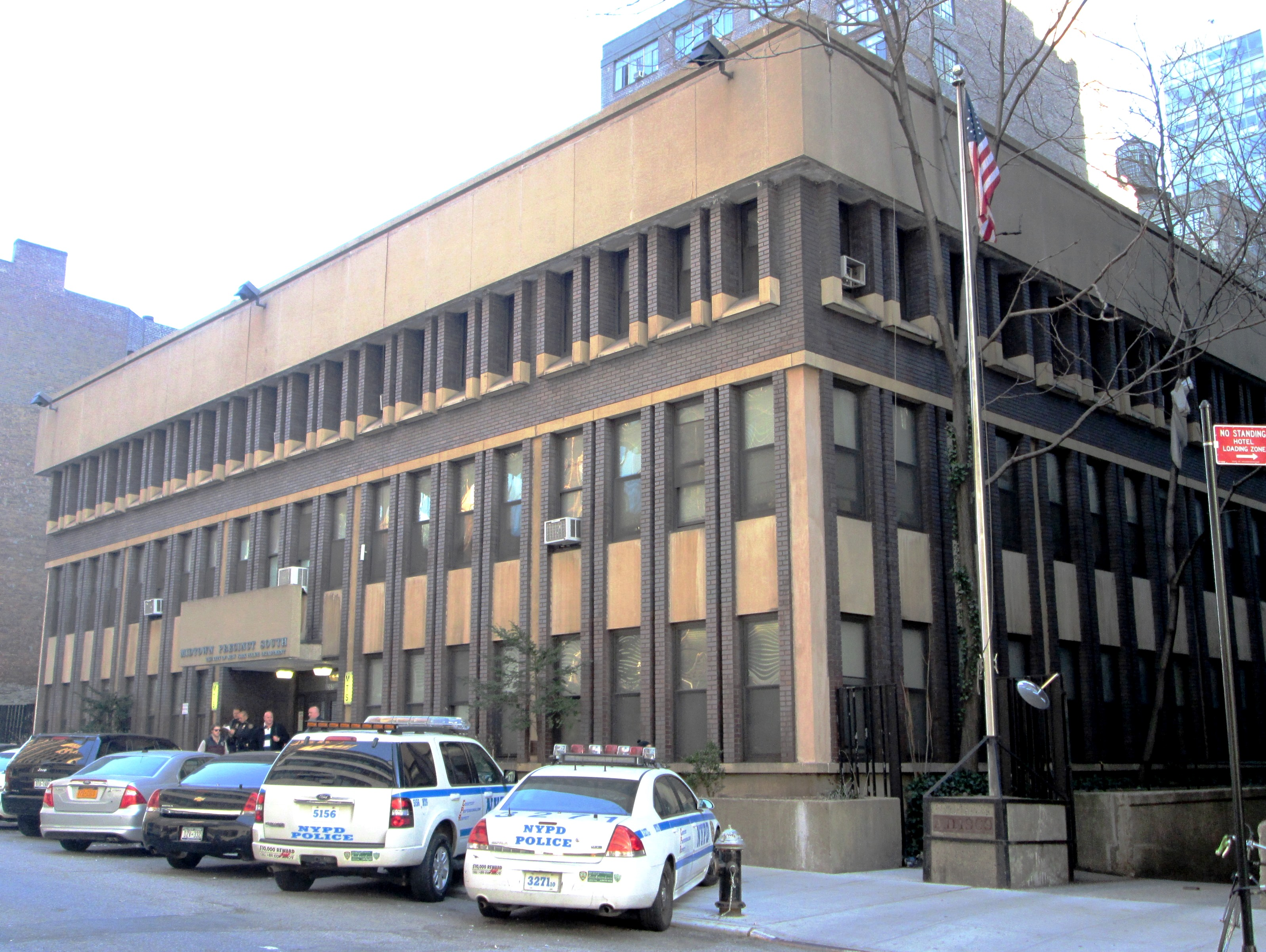 The Midtown South Precinct station house of the New York Police Department, at 357 West 35th Street between Eighth and Ninth Avenues in the Garment District neighborhood of New York City was built in 1968. (Source: NYC GIS map)